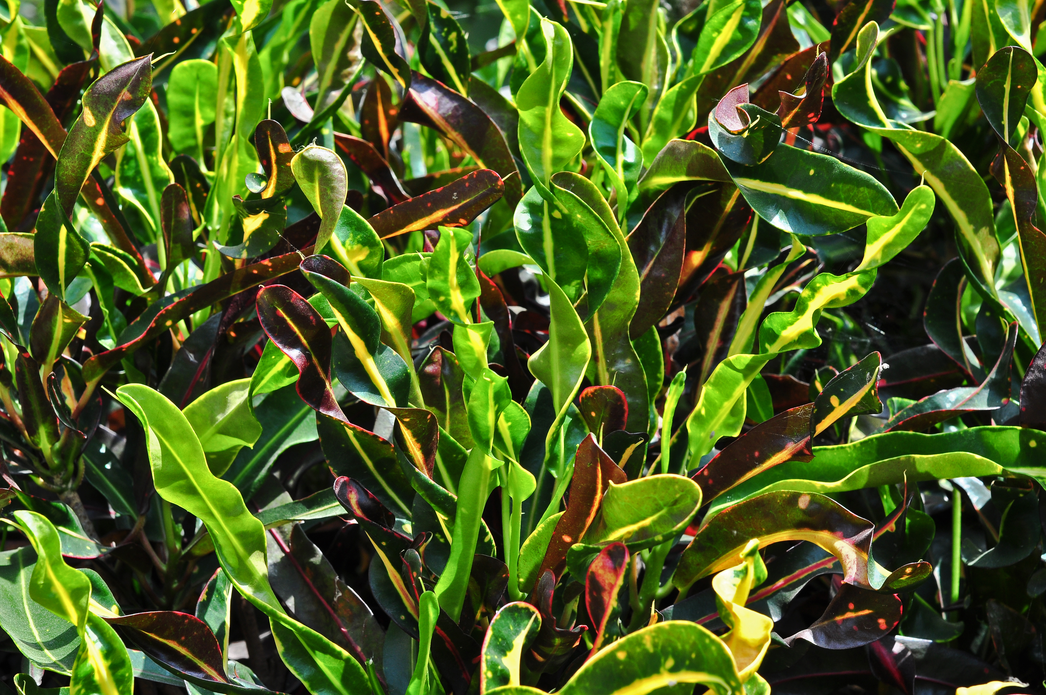 Codiaeum variegatum leaf. Photographed at Burdwan, West Bengal, India.